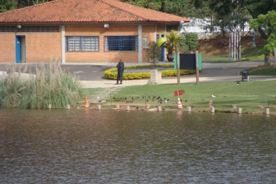 Cidade de Toronto Park - São Paulo